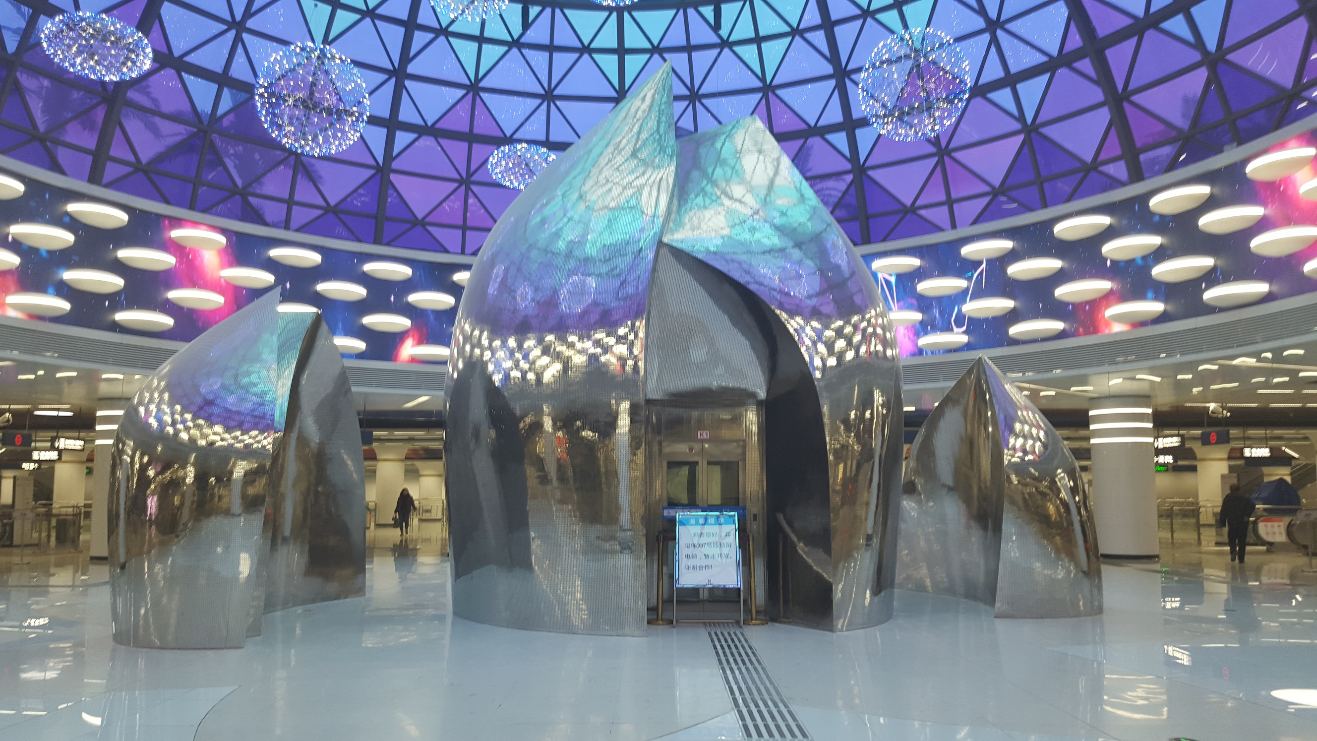 Concourse of Wuhan Business District Station, Wuhan Metro